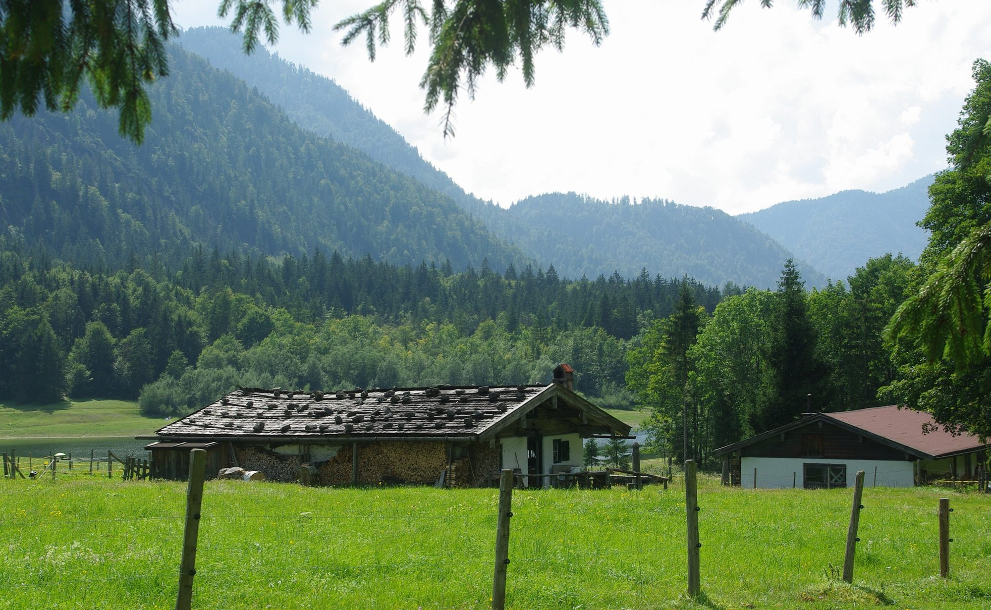 Ein Kaser der Lödenalm bei Ruhpolding This is a photograph of an architectural monument.